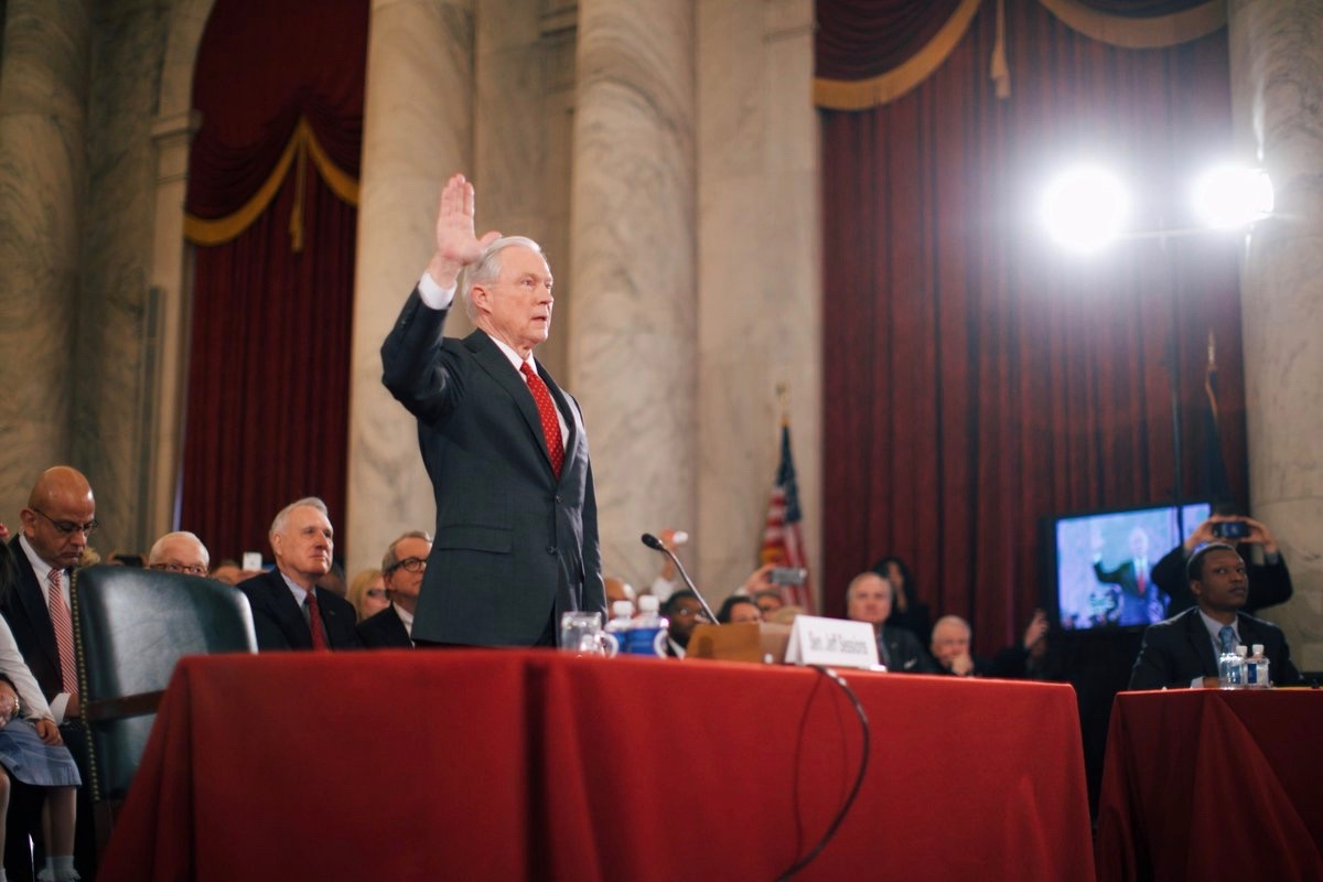 Jeff Sessions, President-elect Donald Trump's choice for Attorney General, being sworn in at his confirmation hearing